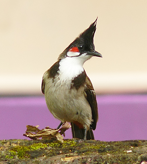 Red-whiskered Bulbul Pycnonotus jocosus, Kannur, Kerala, India